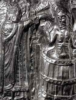 Harald Bluetooth being baptized by Poppo the missionary, probably ca. 970.